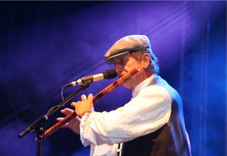 Rão Ryao at FMM Festival das Músicas do Mundo in Porto Covo /Portugal